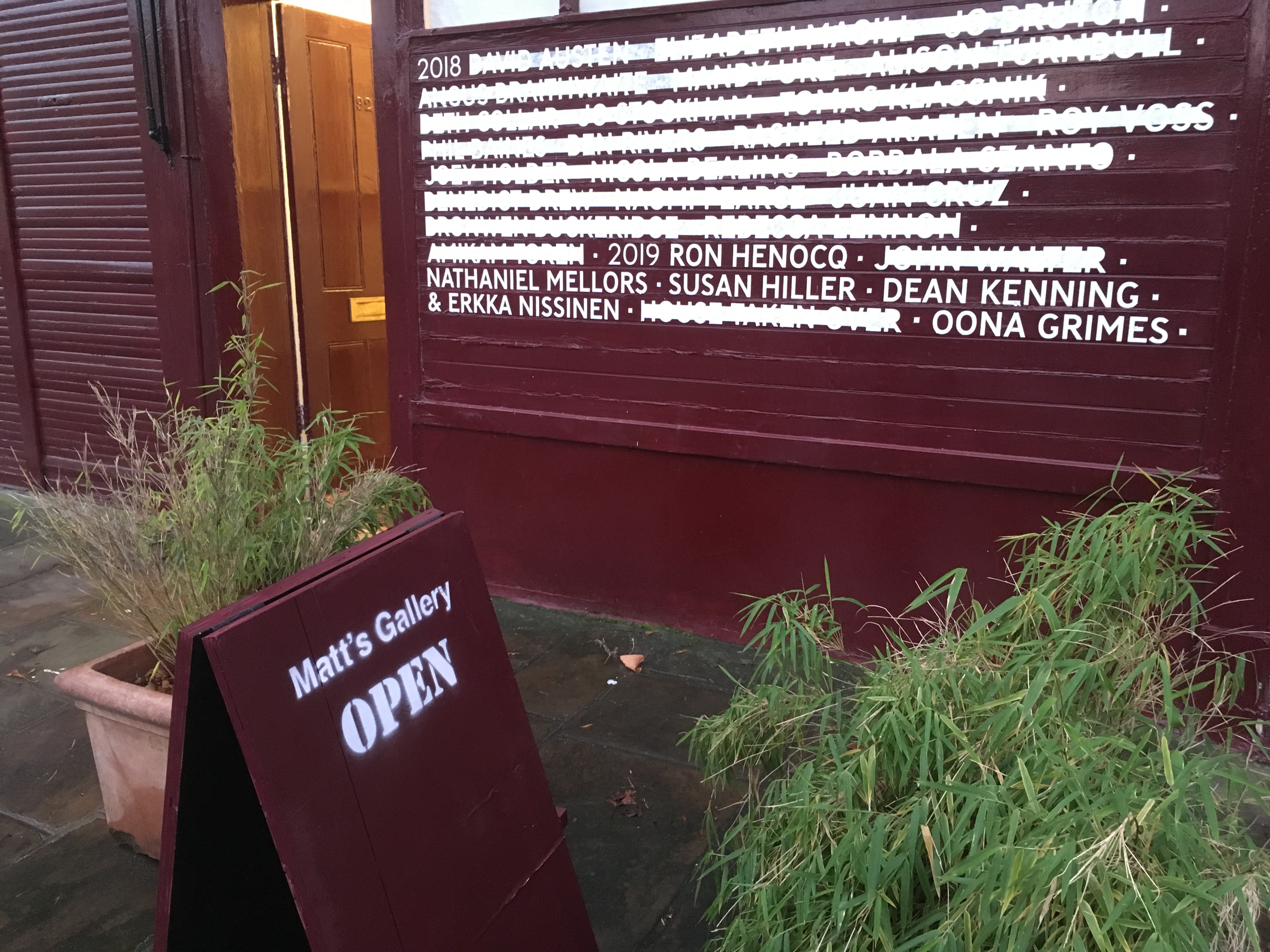 Exterior of Matt's Gallery at 92 Webster Road. Photograph by Tim Dixon.